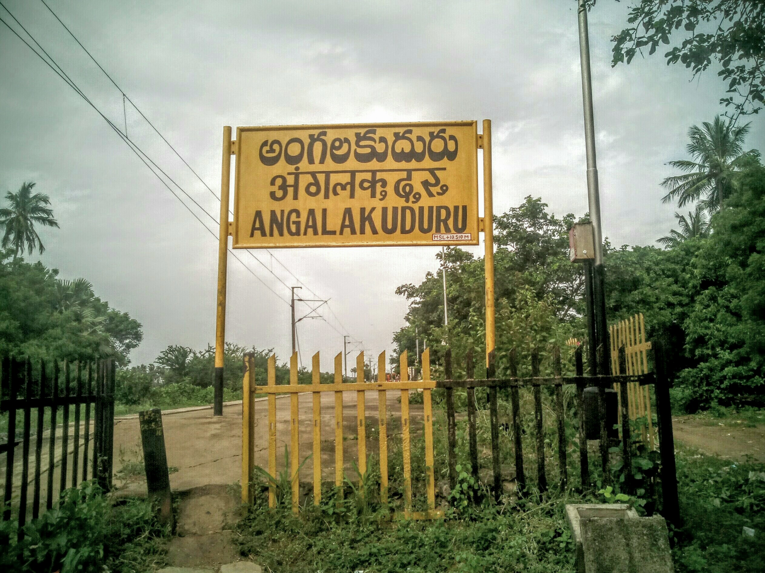 Angalakuduru railway station signboard